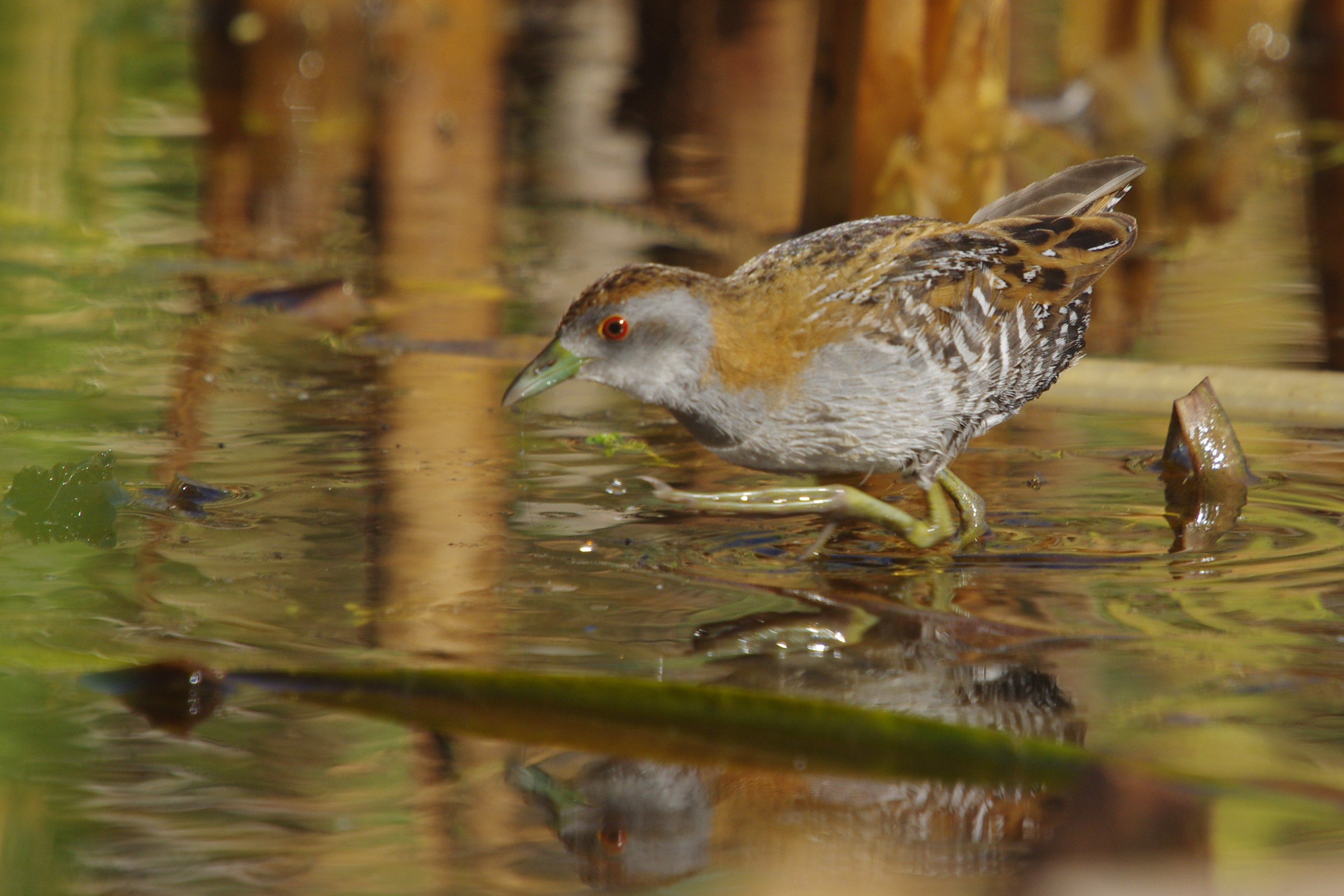 Baillon's Crake (Porzana pusilla) at Beeliar, Western Australia